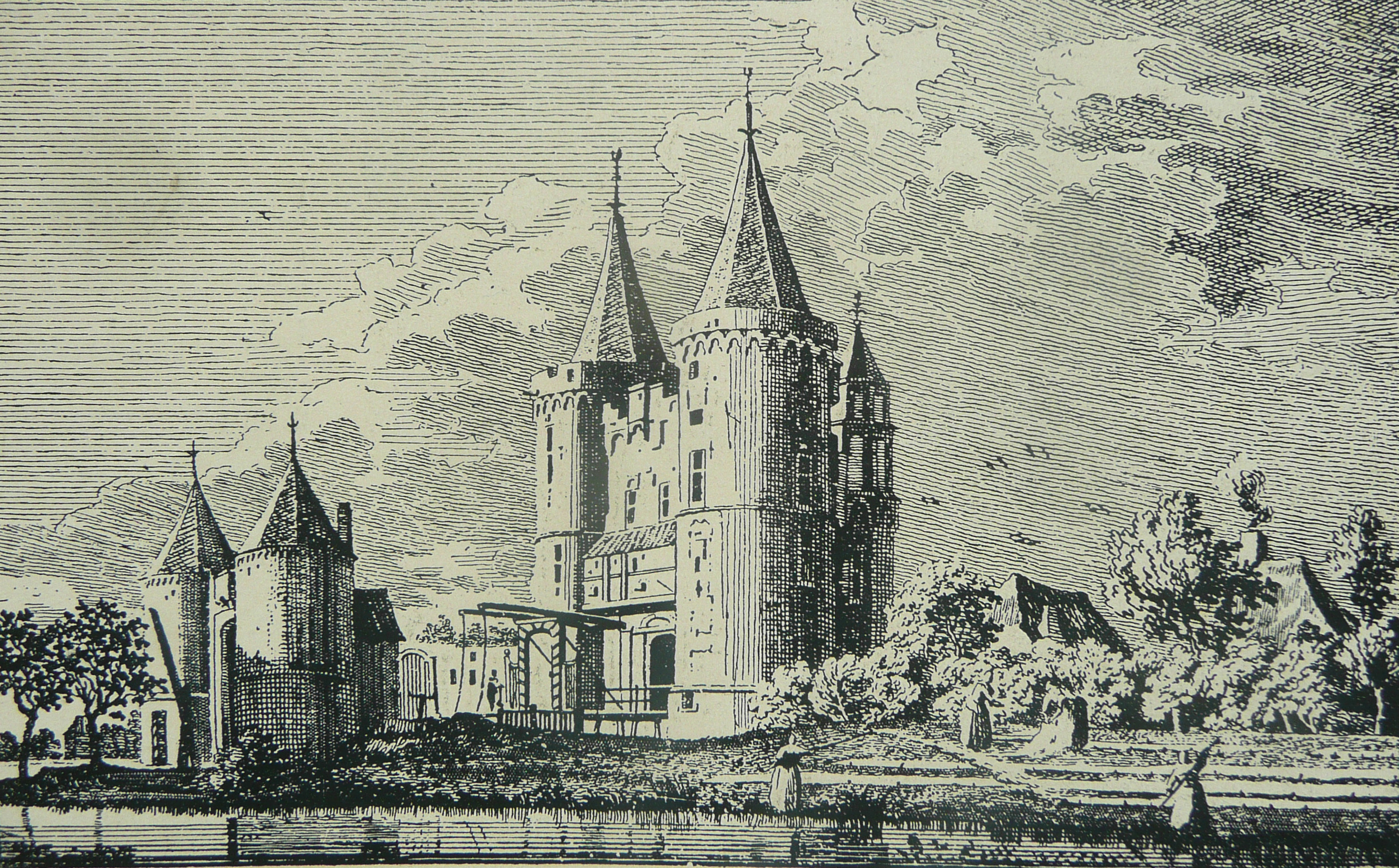 The former Hanselaertor in Kalkar (Germany) in 1758